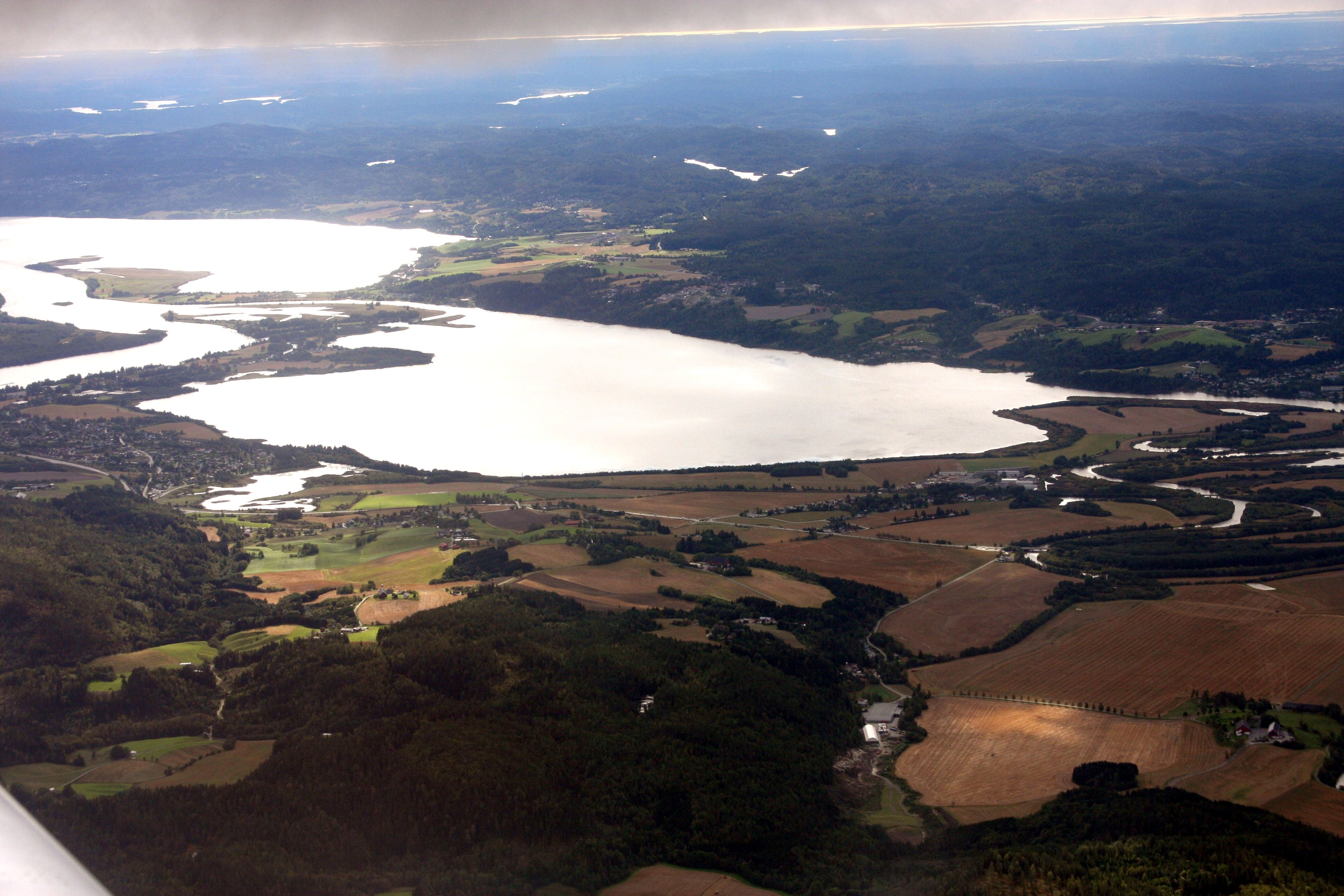 Nordre Öyeren Nature Reserve and Ramsar Area, in Akershus, Norway. This is the central part of the reserve, at the northern end of Lake Öyeren.